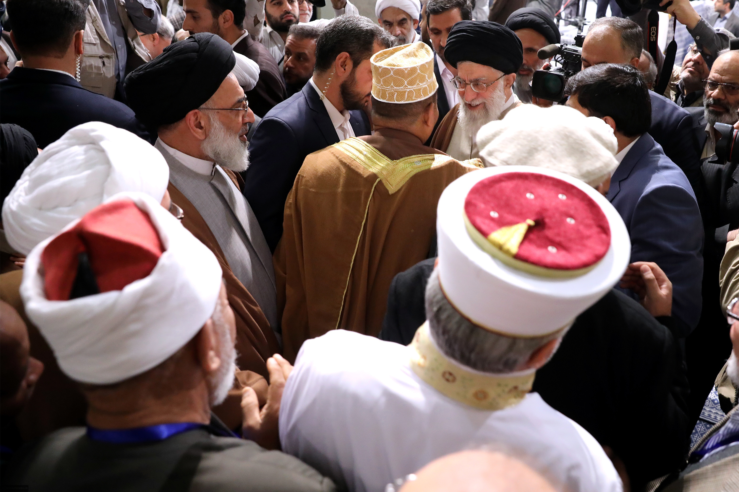 Heads of State & Participants of 31th International Islamic Unity Conference in Tehran Meeting with Ayatollah Sayyed Ali Khamenei- December 2017